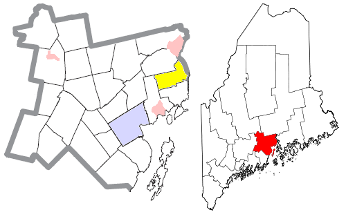 Map of the divisions of Waldo County, Maine, United States, with the town of Prospect highlighted in yellow. The city of Belfast is light blue; other towns are white; and pink areas are census-designated places within towns.